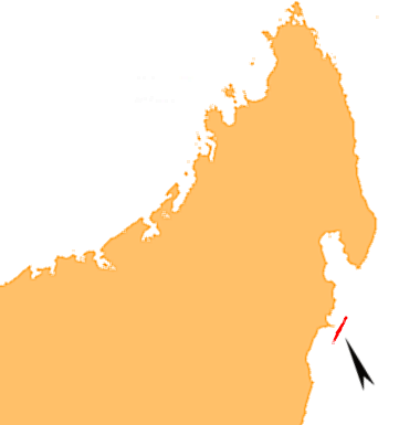 I created this image by adapting 50px, a picture in the public domain, as it was generated by a user, using free sources available at The Map Library. JMK 00:08, 4 August 2006 (UTC)